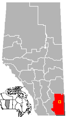 Location of Redcliff, Census Division No. 1, Albera